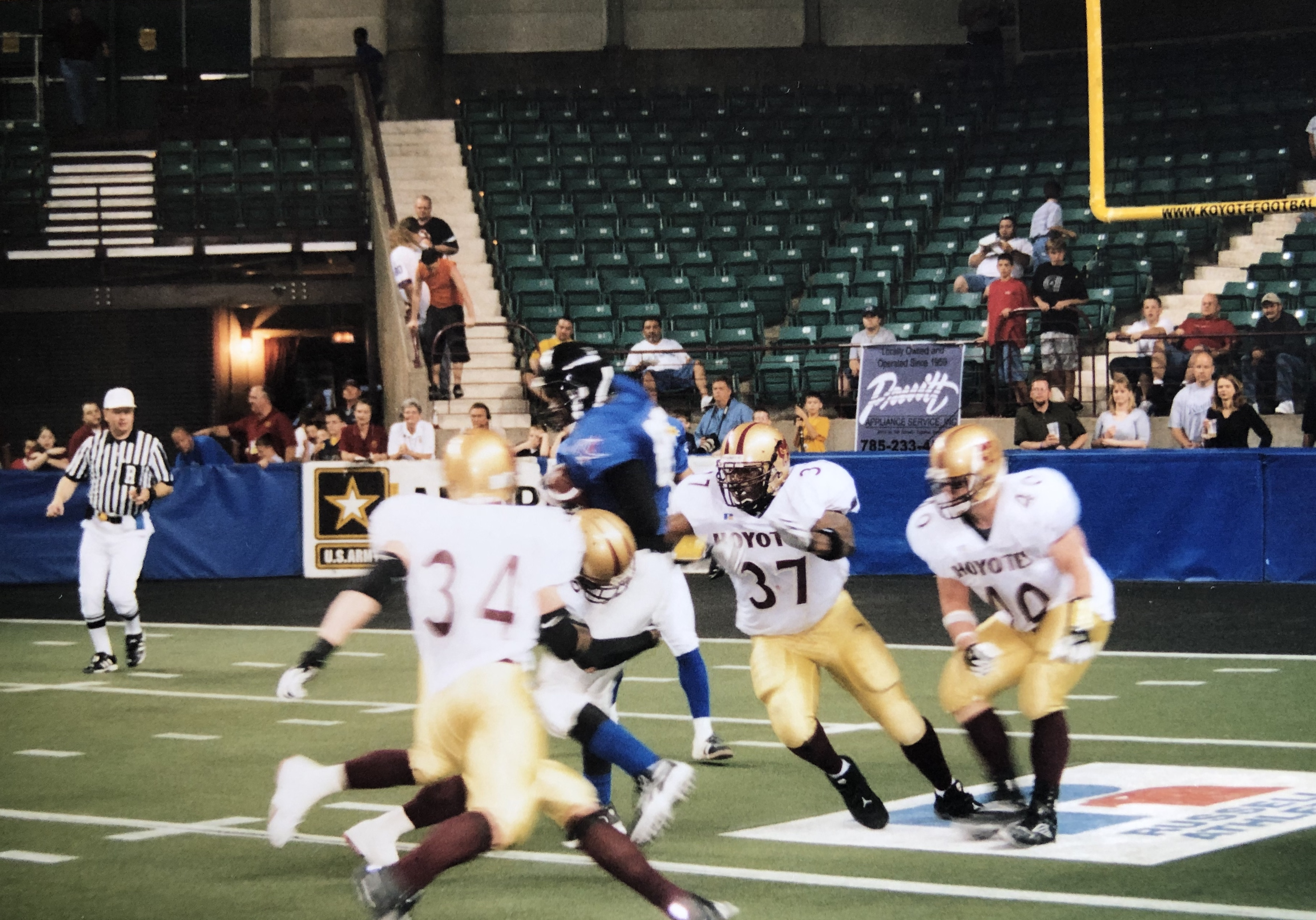 2004 Kansas Kotoes vs Texas Thunder